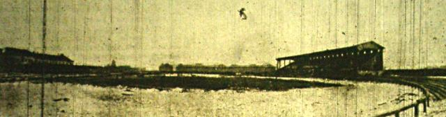 The first stadium of the FTC on the opening day. Budapest, Hungary